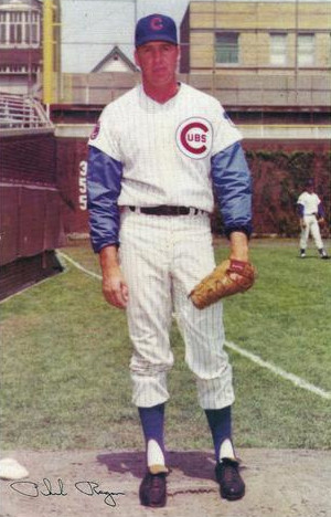 Professional baseball player Phil Regan